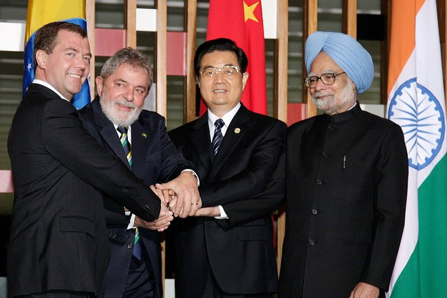 With President of Brazil Luis Inacio Lula da Silva, President of China Hu Jintao, and Indian Prime Minister Manmohan Singh.